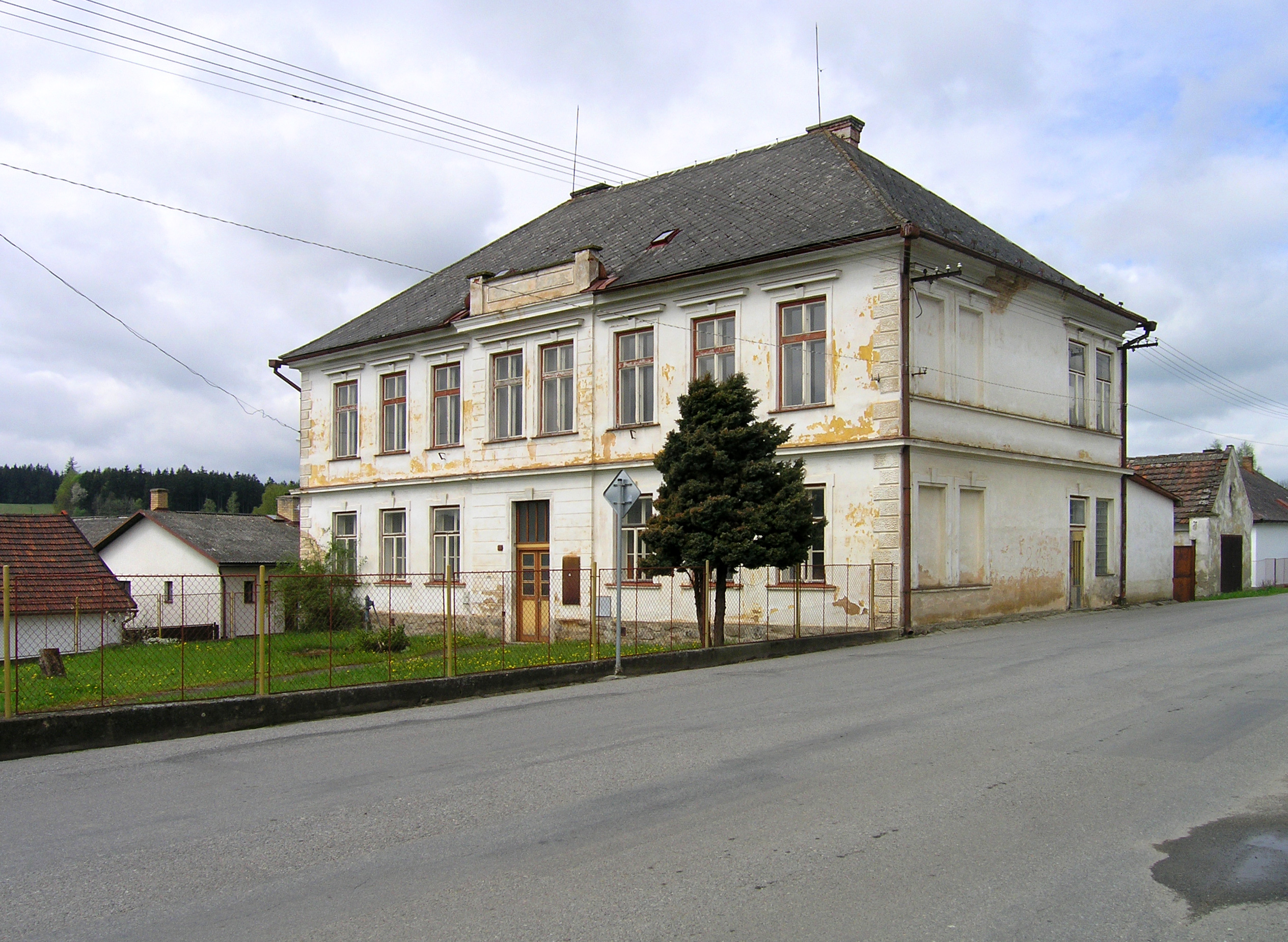 Old school in Bohdalín, Czech Republic